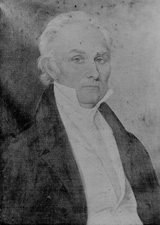 From .